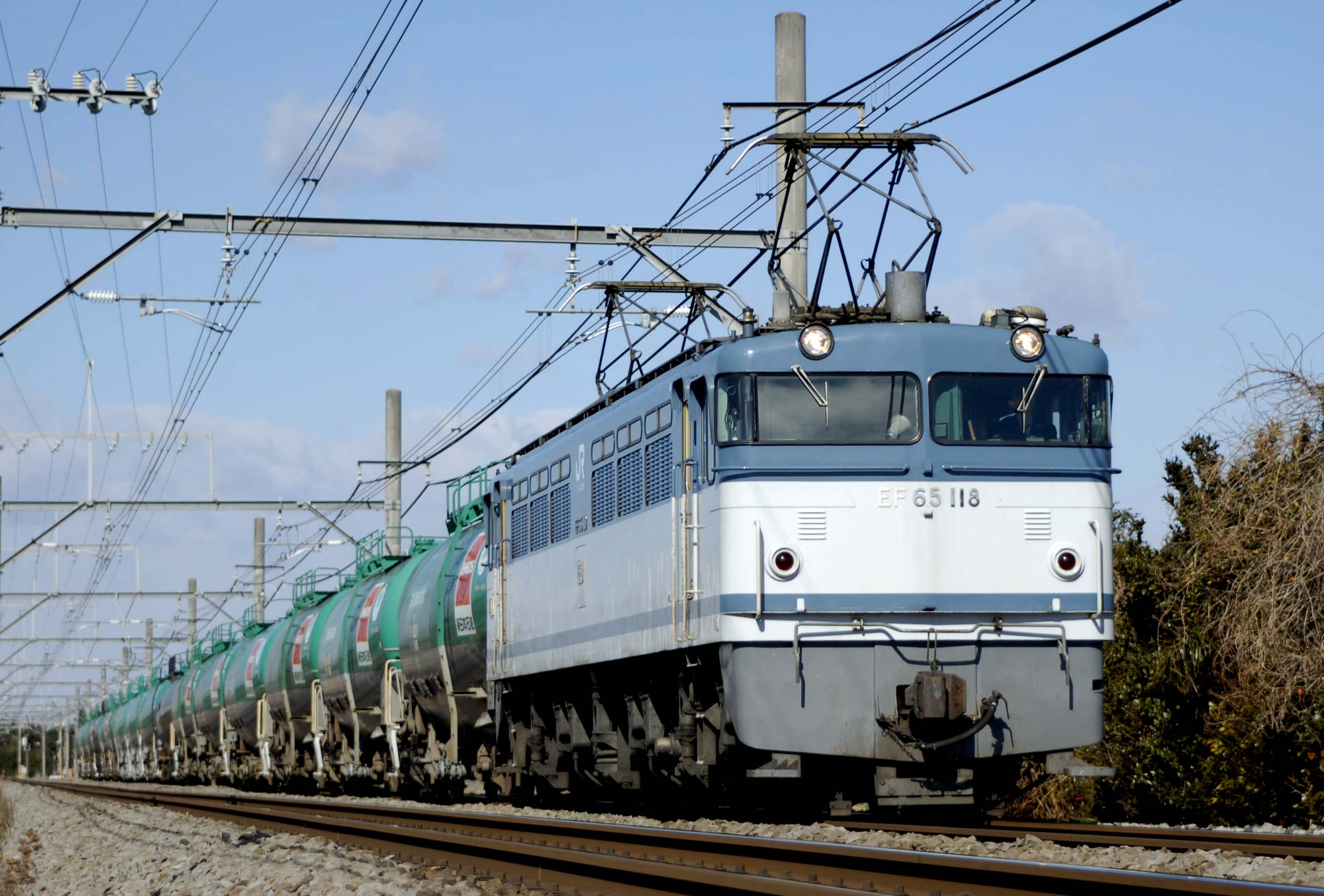 JR Freight EF65-0 type electric locomotive, JR-freight color. タンク貨物列車を牽引するJR貨物更新色のEF65一般型、118号機。